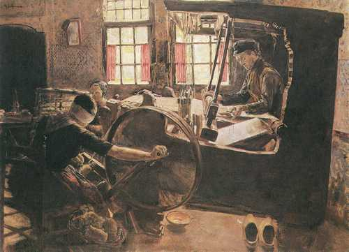 "The Weaver" by Max Liebermann